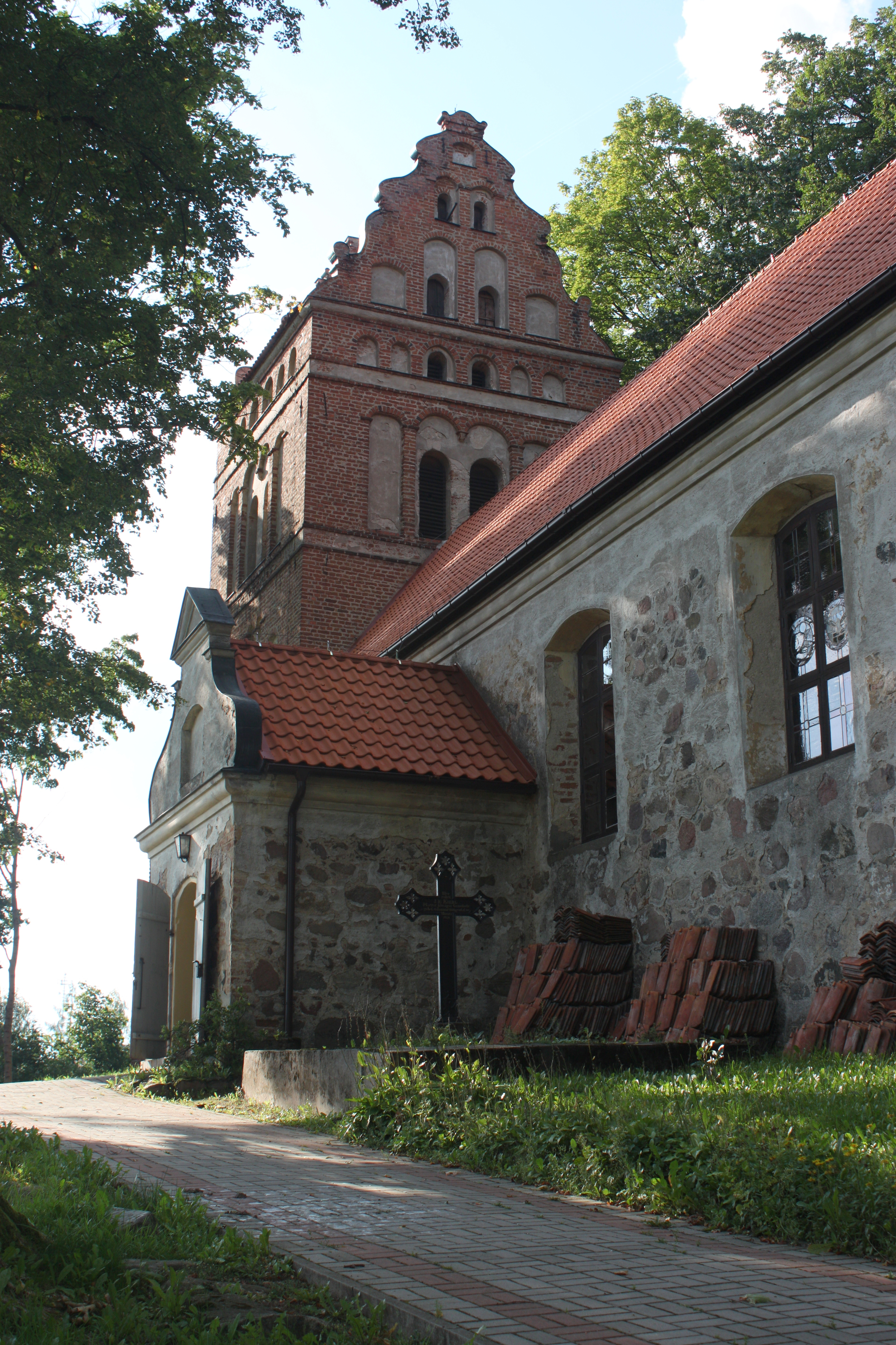 Lutheran church in Dźwierzuty and cemetery nearby.